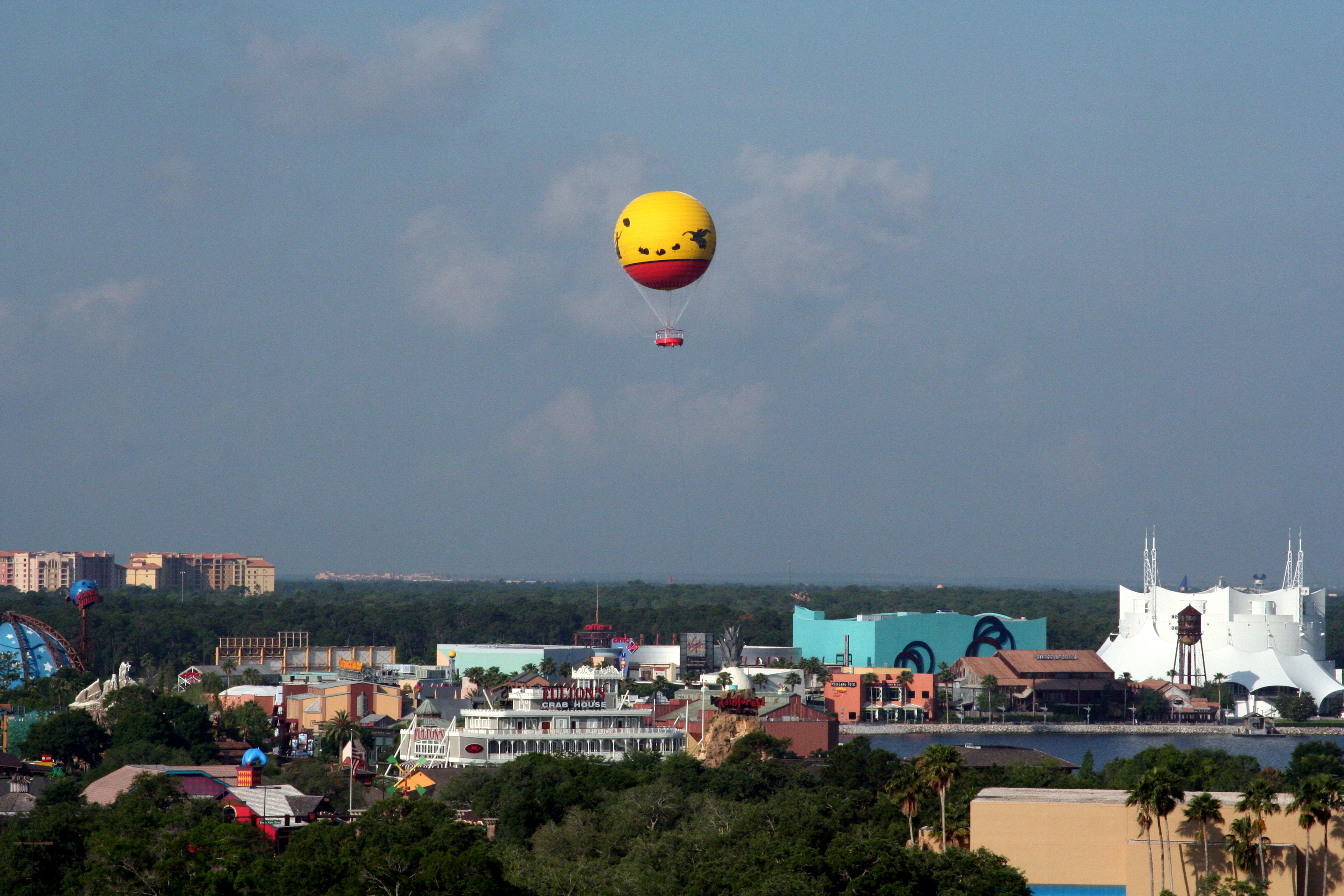 Characters in Flight - Balloon Ride in Downtown Disney, Characters in Flight Operated by Aérophile takes you for a flight in a giant tethered gas balloon 400 feet above Downtown Disney Area! Ascend to the sky from a specially designed platform for a breathtaking, 360–degree view of Walt Disney World Resort in Florida.